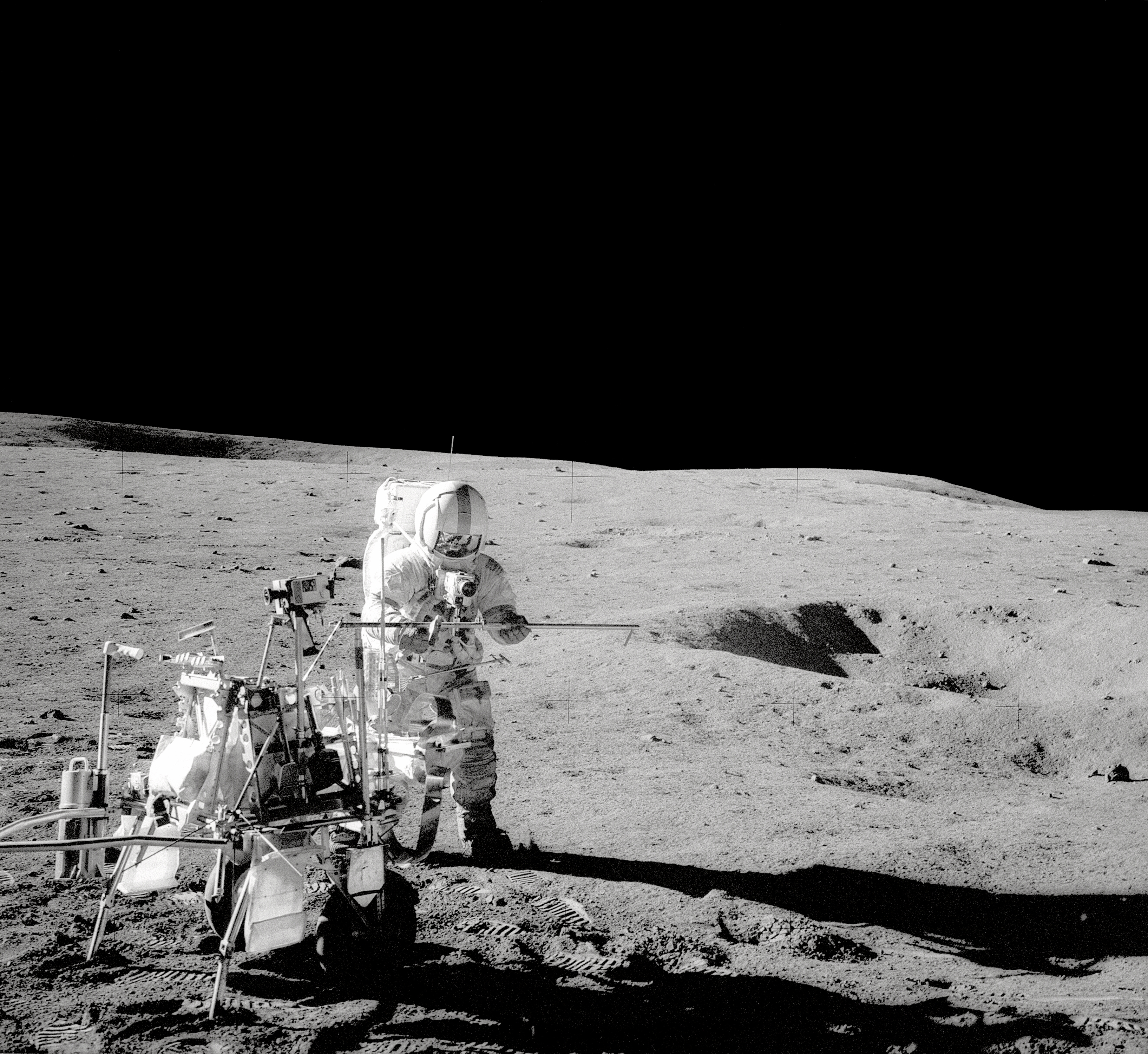 Apollo 14 Commander Alan Shepard stands by the Modular Equipment Transporter (MET). The MET, which the astronauts nicknamed the "rickshaw," was a cart for carrying around tools, cameras and sample cases on the lunar surface. Shepard can be identified by the vertical stripe on his helmet. After Apollo 13, the commander's spacesuit had red stripes on the helmet, arms, and one leg, to help identify them in photographs.